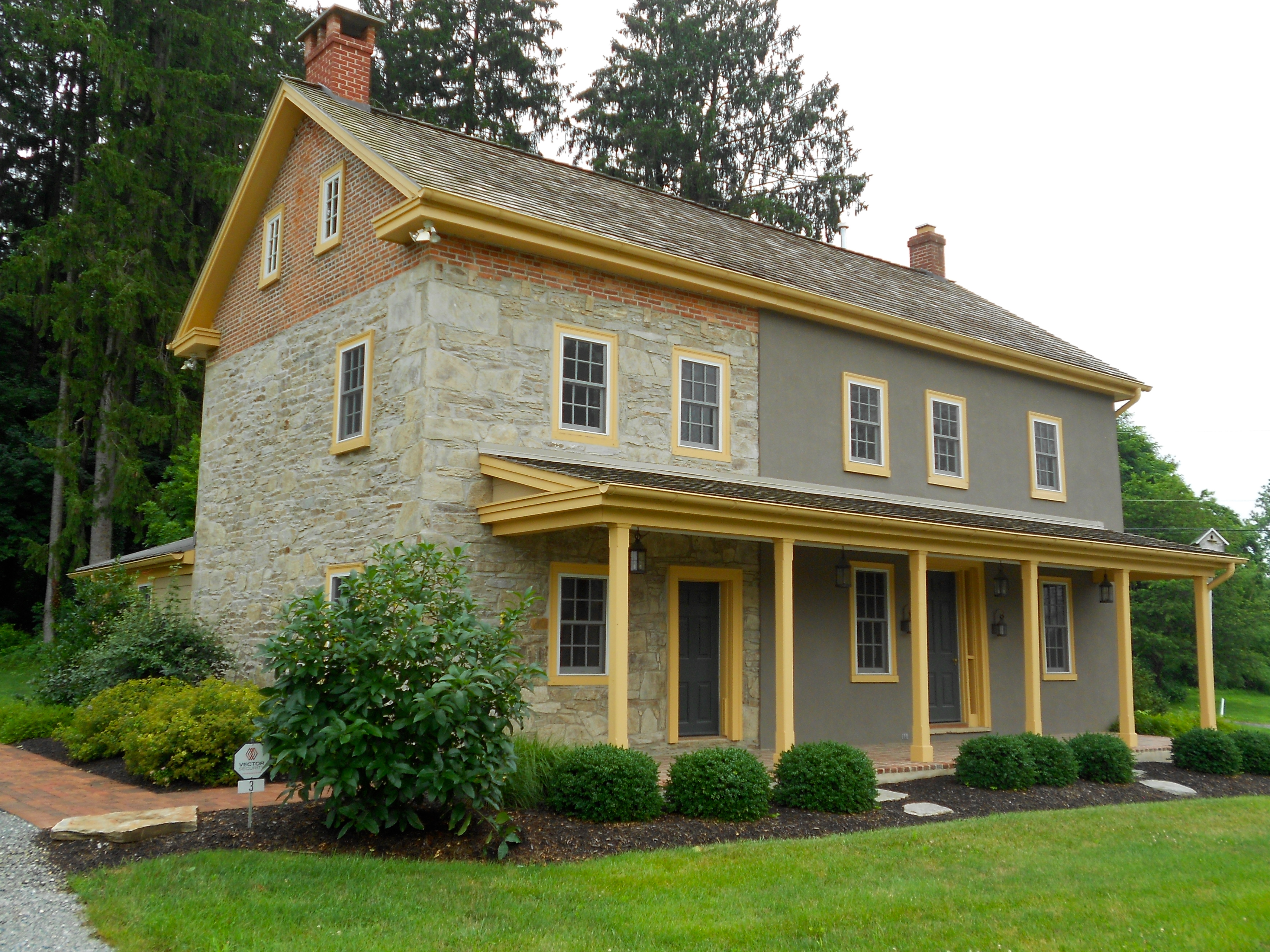 House in Andrews Bridge Historic District in Lancaster County, Pennsylvania. On the NRHP since December 22, 1988. Located at the junction of Pennsylvania Route 896 and Sproul and Creek Roads, in southern Lancaster County, Colerain Township. About 9 buildings in the historic district including barns.